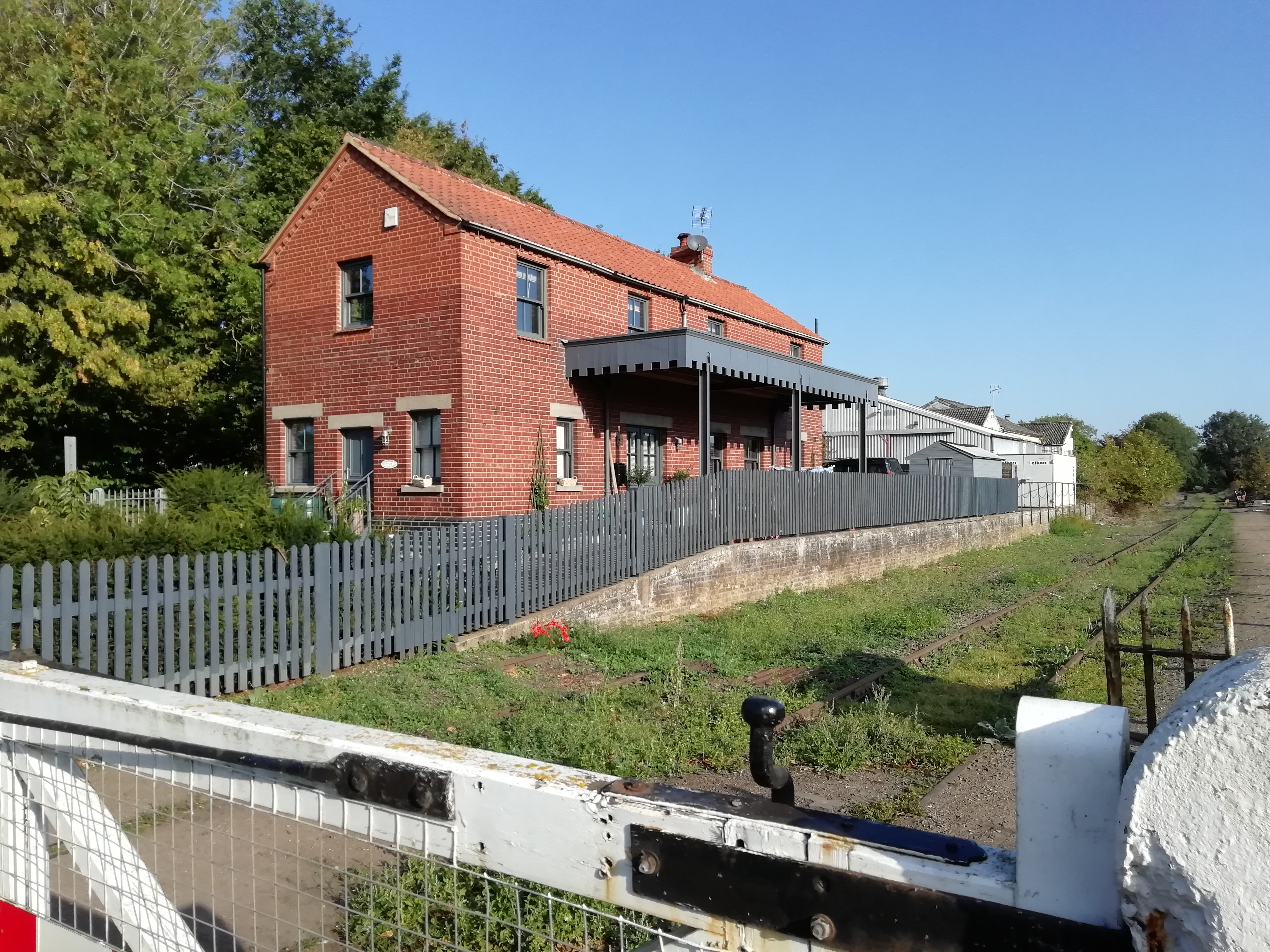 The former LNER station building at North Elmham, now fitted with a second floor and converted into a private home. The platform has been cut back, with the goods shed extended and in industrial use behind.